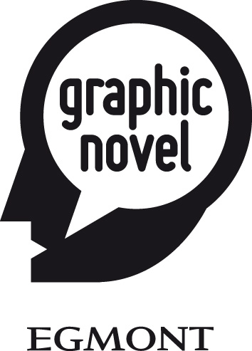 Egmont Graphic Novel